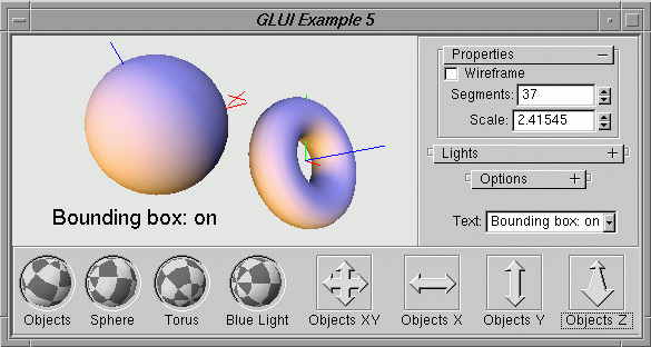 Screenshot of GLUI example program.